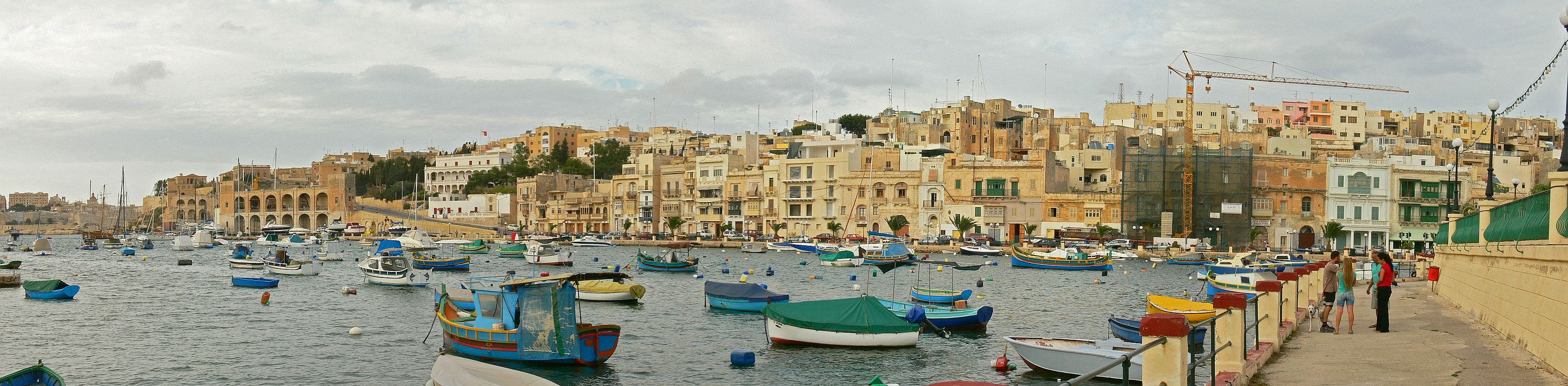 Panoramic view of Il-Kalkara, Malta